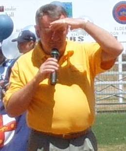 Mr Ted Quinlan, MLA, speaks at the opening ceremony of the 2006 u16 Girls' National Championships ("Esther Deason Shield"). The Shield was contested in Canberra, Australia, at the Hawker International Softball Centre. This photograph was taken by Yours Truly on 2006-01-08, and cropped and compressed before uploading.